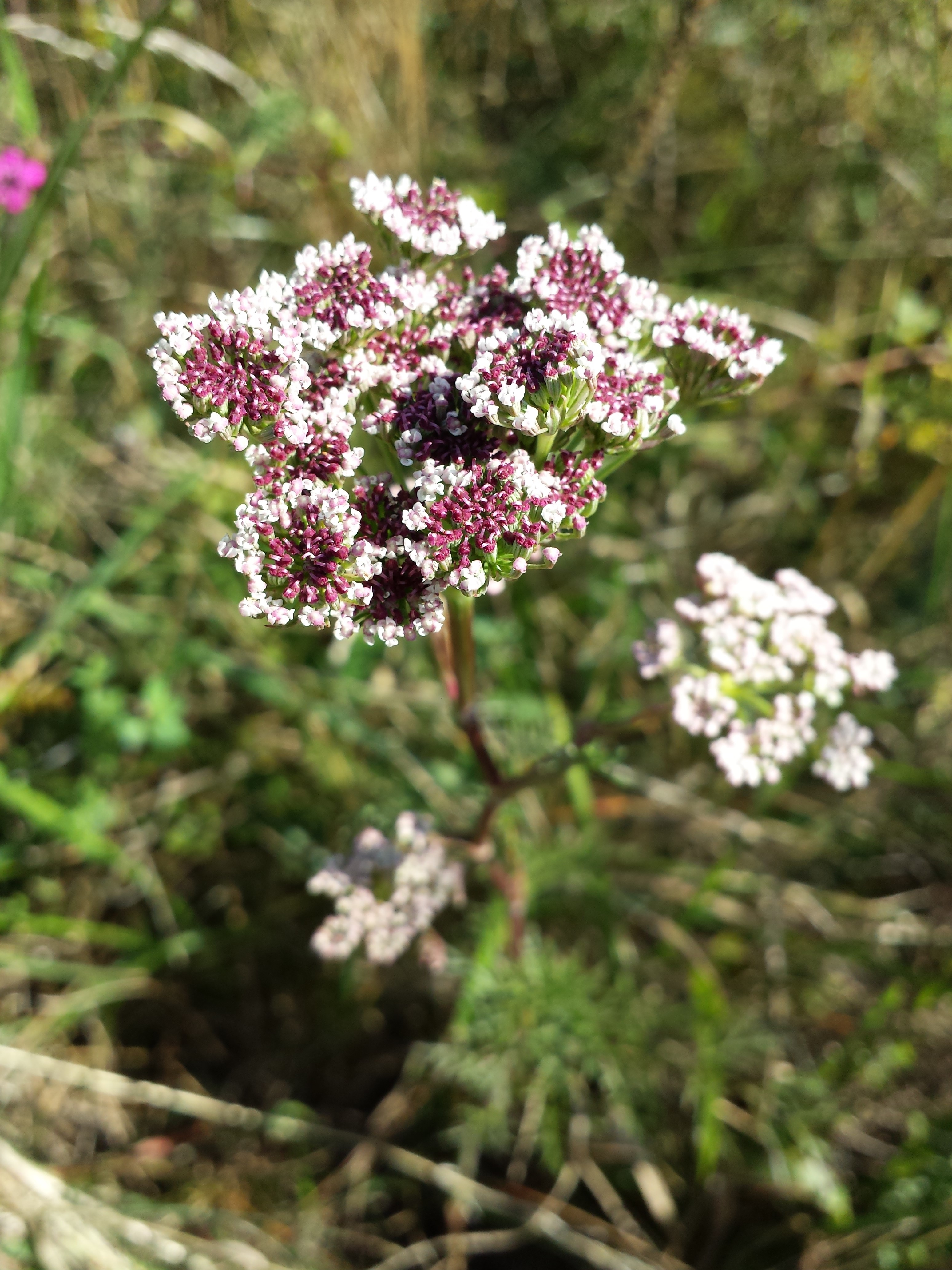 Habitus Taxon: Seseli annuum (sensu Fischer et al. EfÖLS 2008 ISBN 978-3-85474-187-9) Location: natural monument Stetter Berg, district Korneuburg, Lower Austria - ca. 275 m a.s.l. Habitat: semi-dry grassland